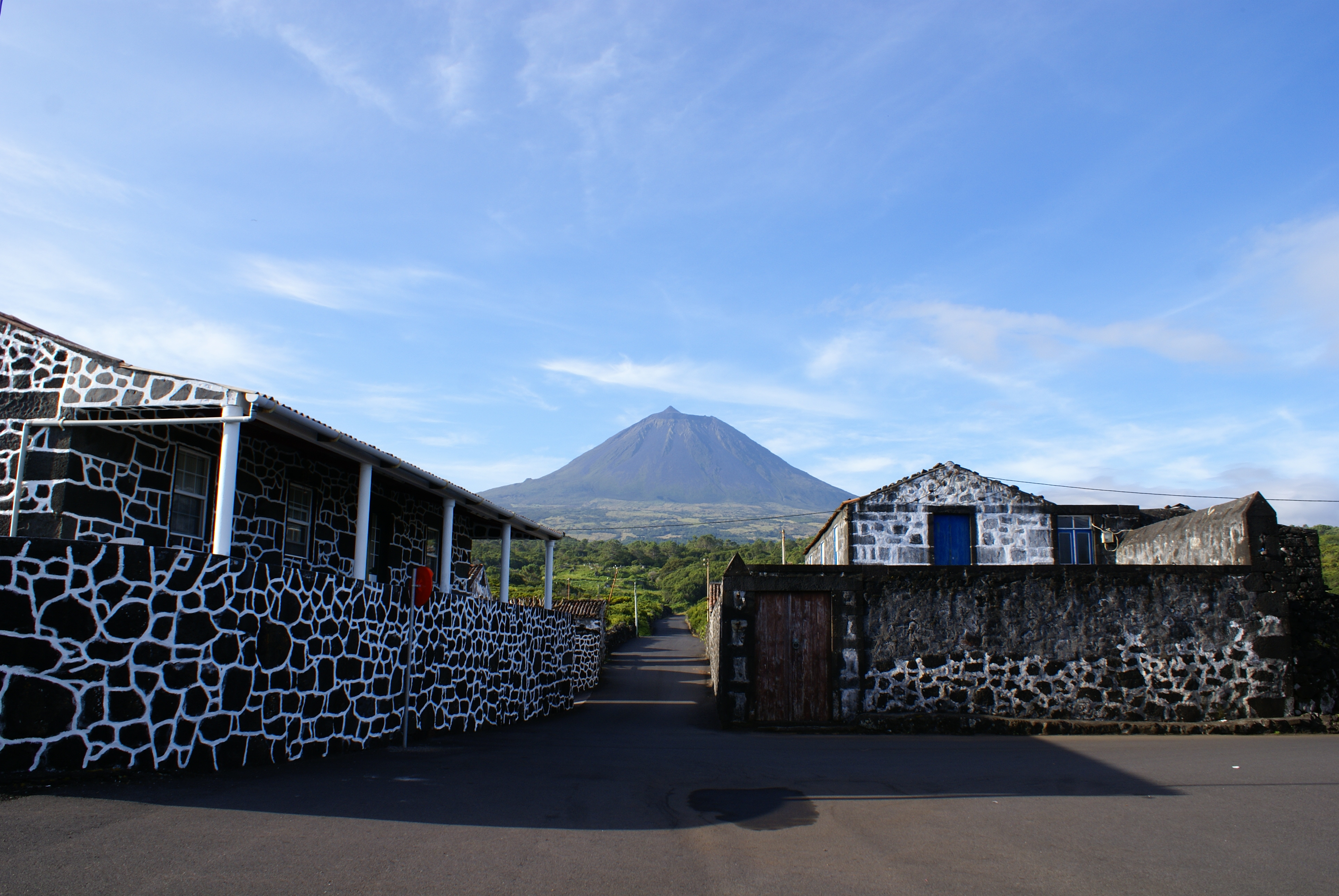 Paisagem Protegida de Interesse Regional da Cultura da Vinha da ilha do Pico, construções, Santa Luzia, Concelho de São Roque, Açores, Portugal.